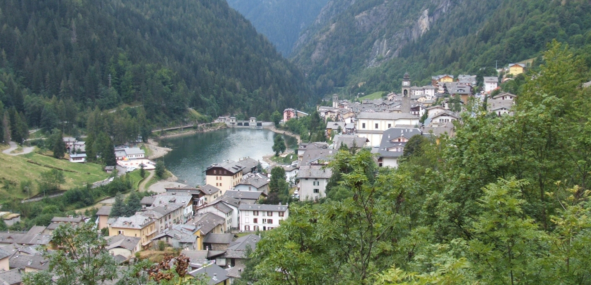 Carona (Bergamo), Italy - View with lake